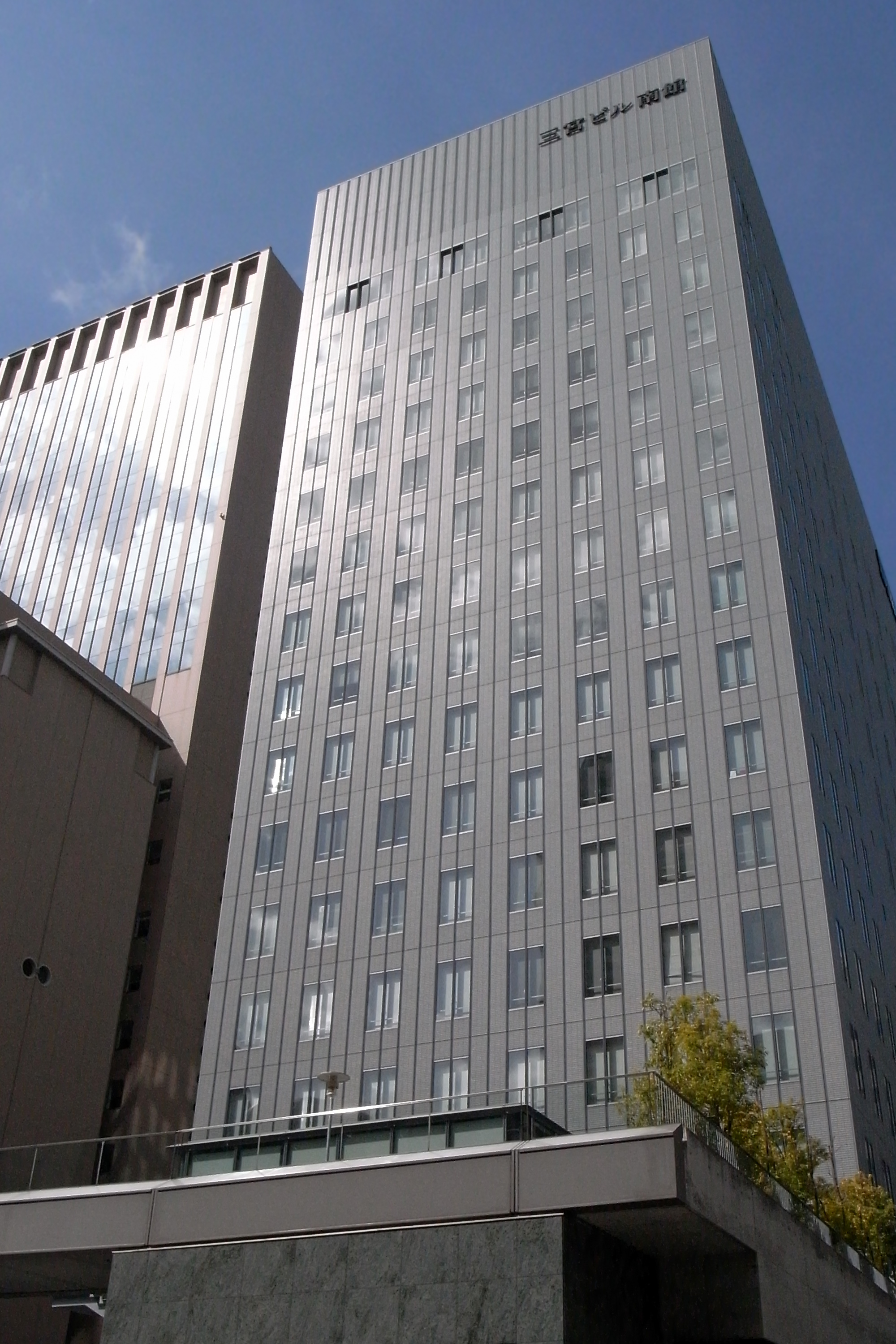 Nestlé Japan headquarters in Kobe, Hyogo prefecture, Japan